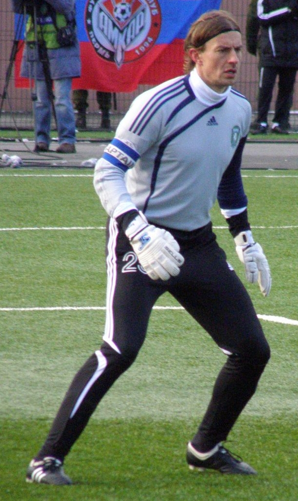 Sergei Pareiko in action for FC Tom